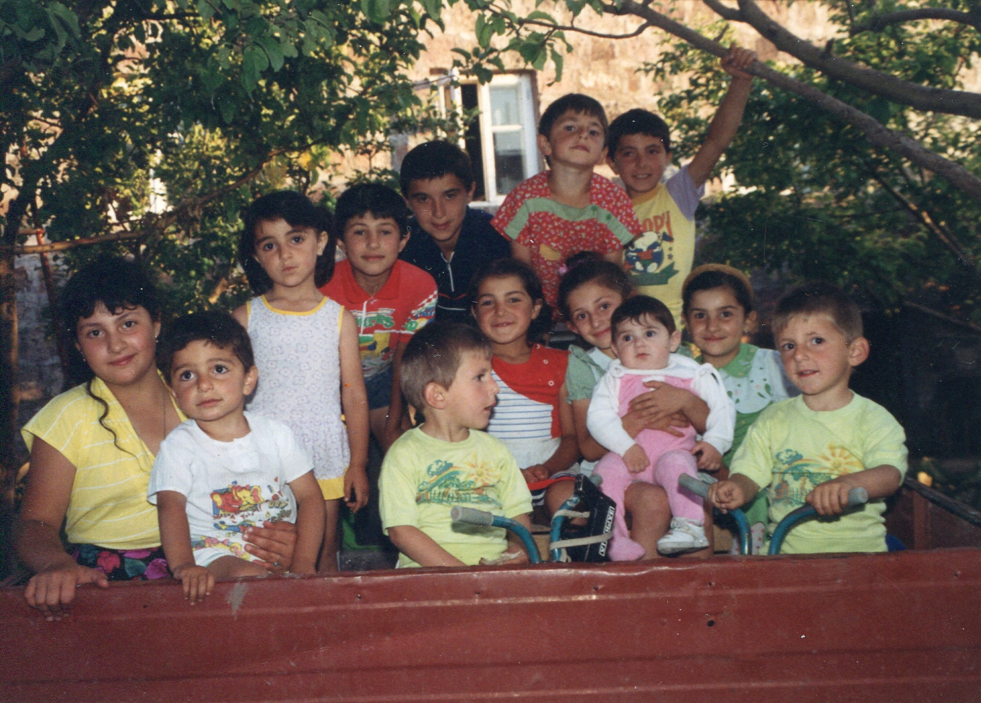 Old picture of children from Maralik, Armenia.